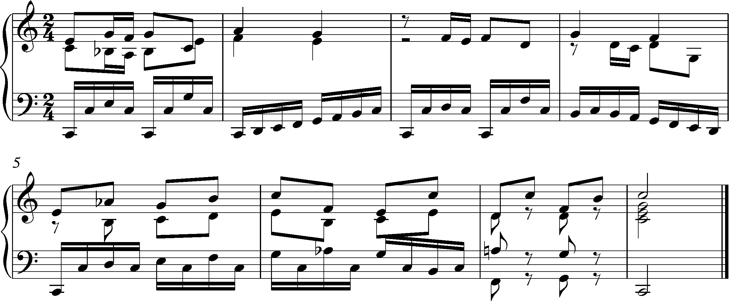 BWV 870 fugue concluding bars